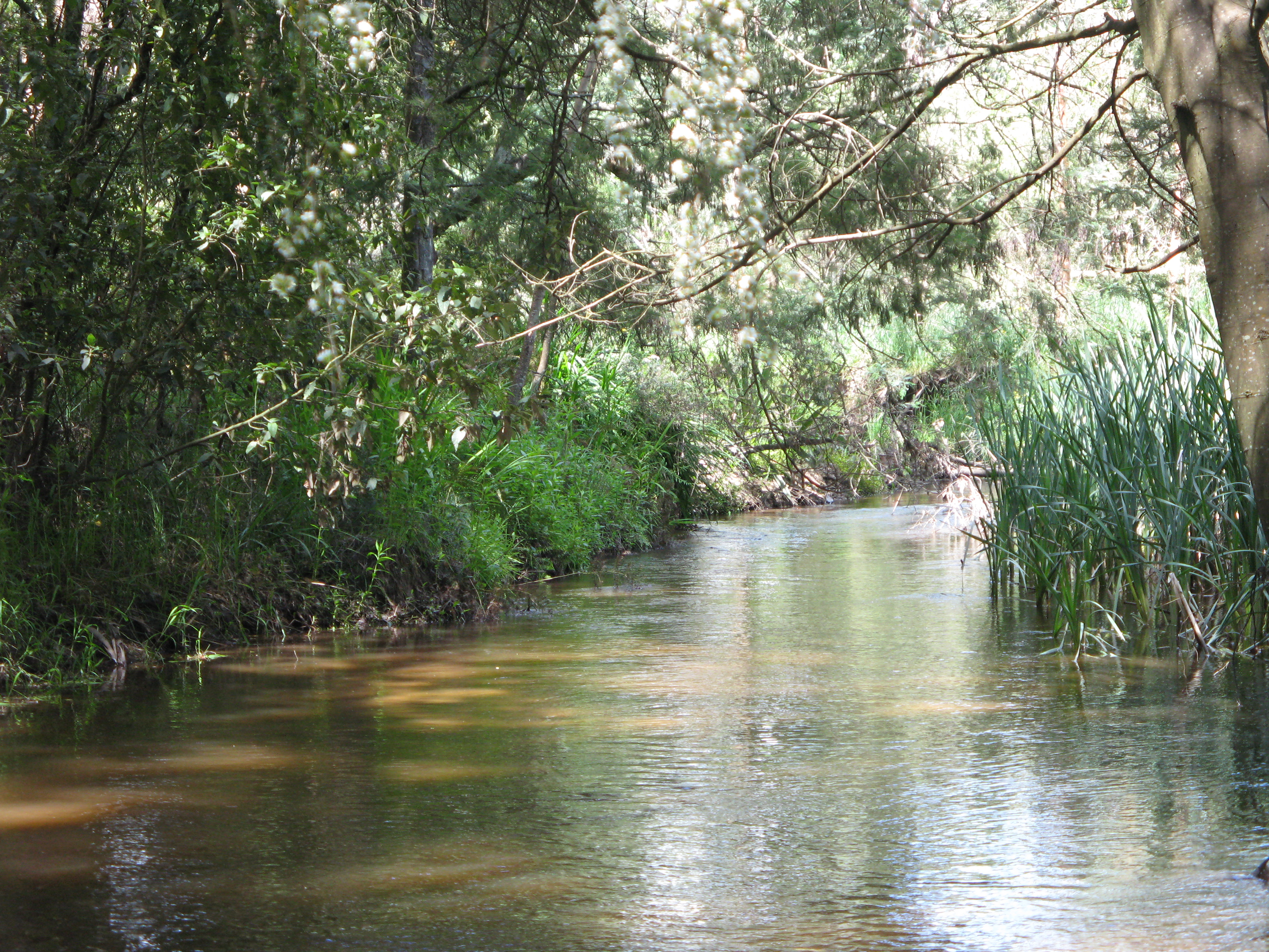 The Little Yarra River through Yarra Junction, at Camp Eureka, November 2009. Photo taken by myself.